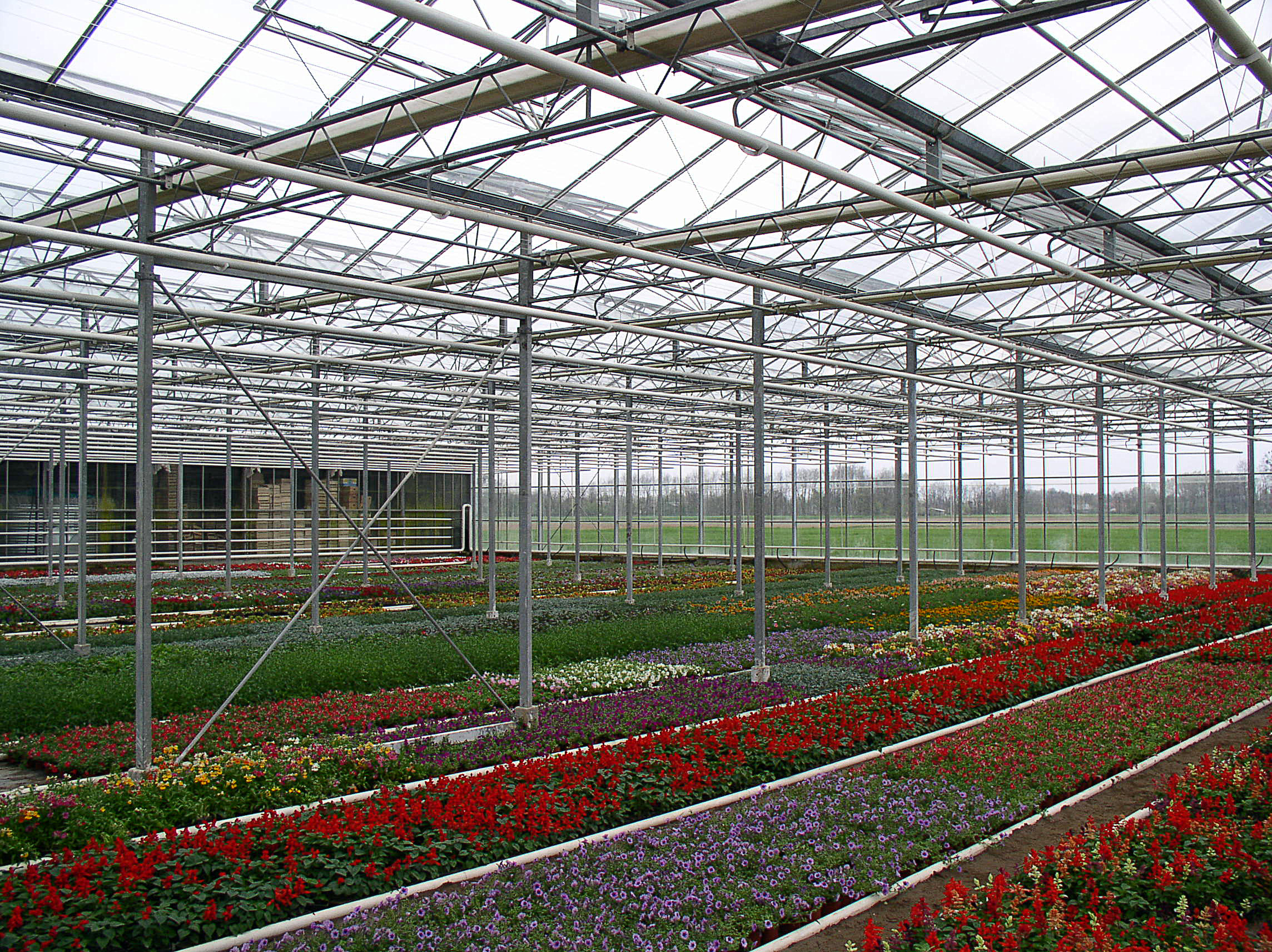 Gutter-connected greenhouse in Dublje (Serbia)